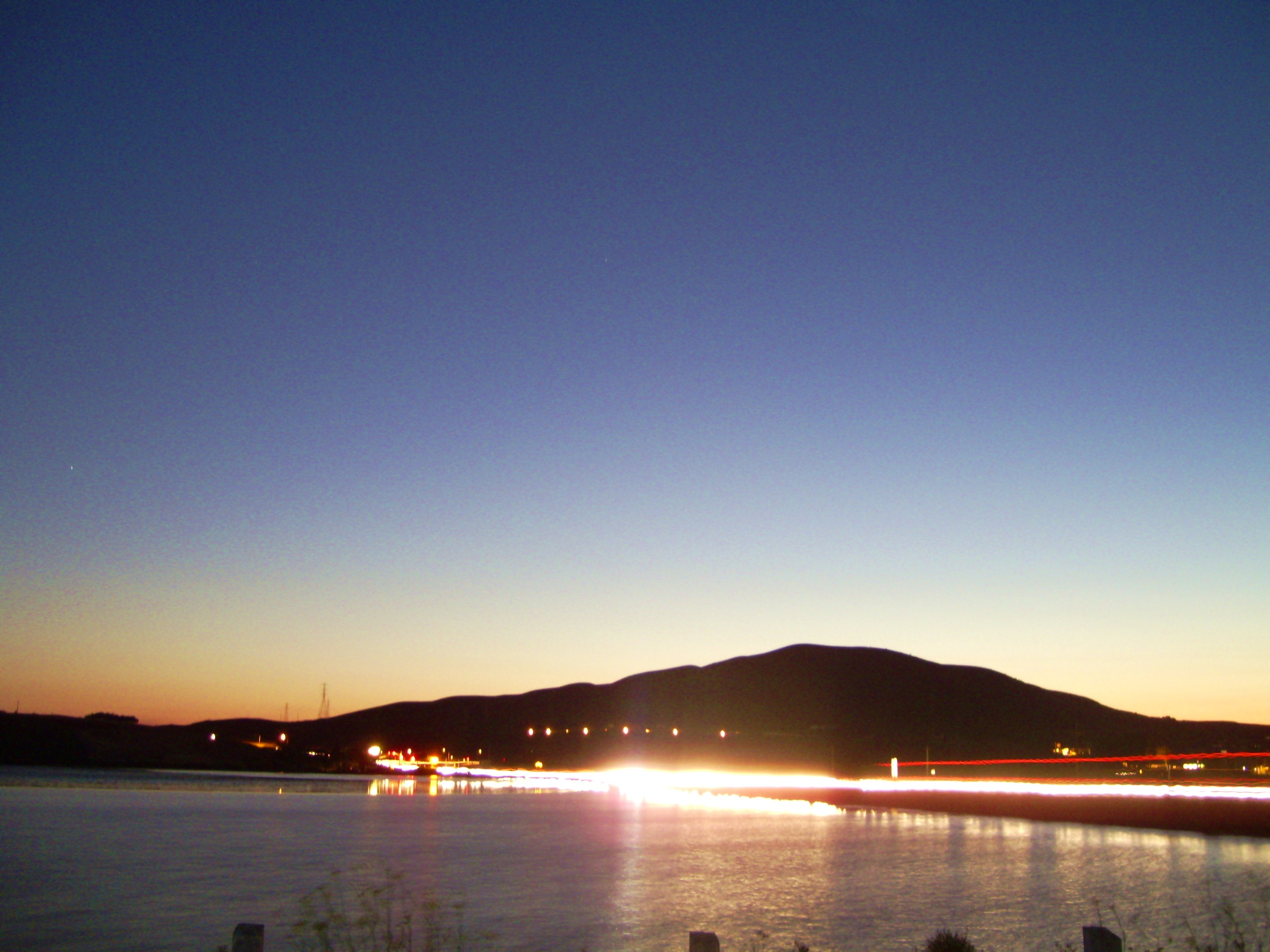 Highway 37 at Sunset. The large hill at Sears Point (also known as Raceway Hill) is the home of Infineon Raceway (formerly known as Sears Point Raceway), in Sonoma County, California.